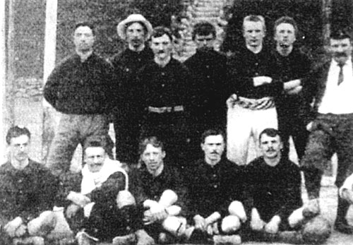 Belgium national football team on 1 May 1904 before their match against France